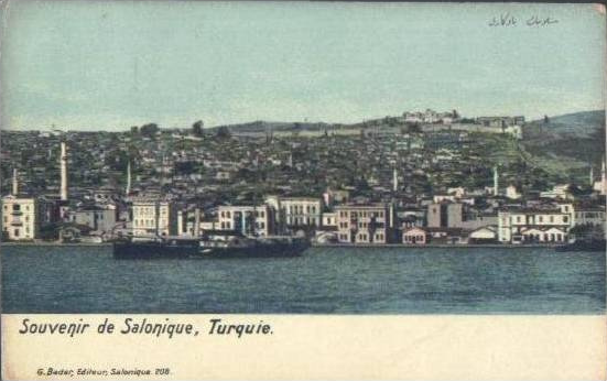 A postcard from Thessaloniki when it was part of the Ottoman Empire, published before the Balkan Wars (1912).